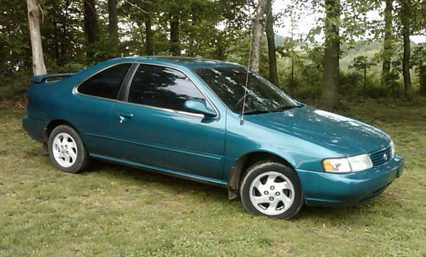 1997 Nissan 200SX SE in Vivid Teal Pearl.